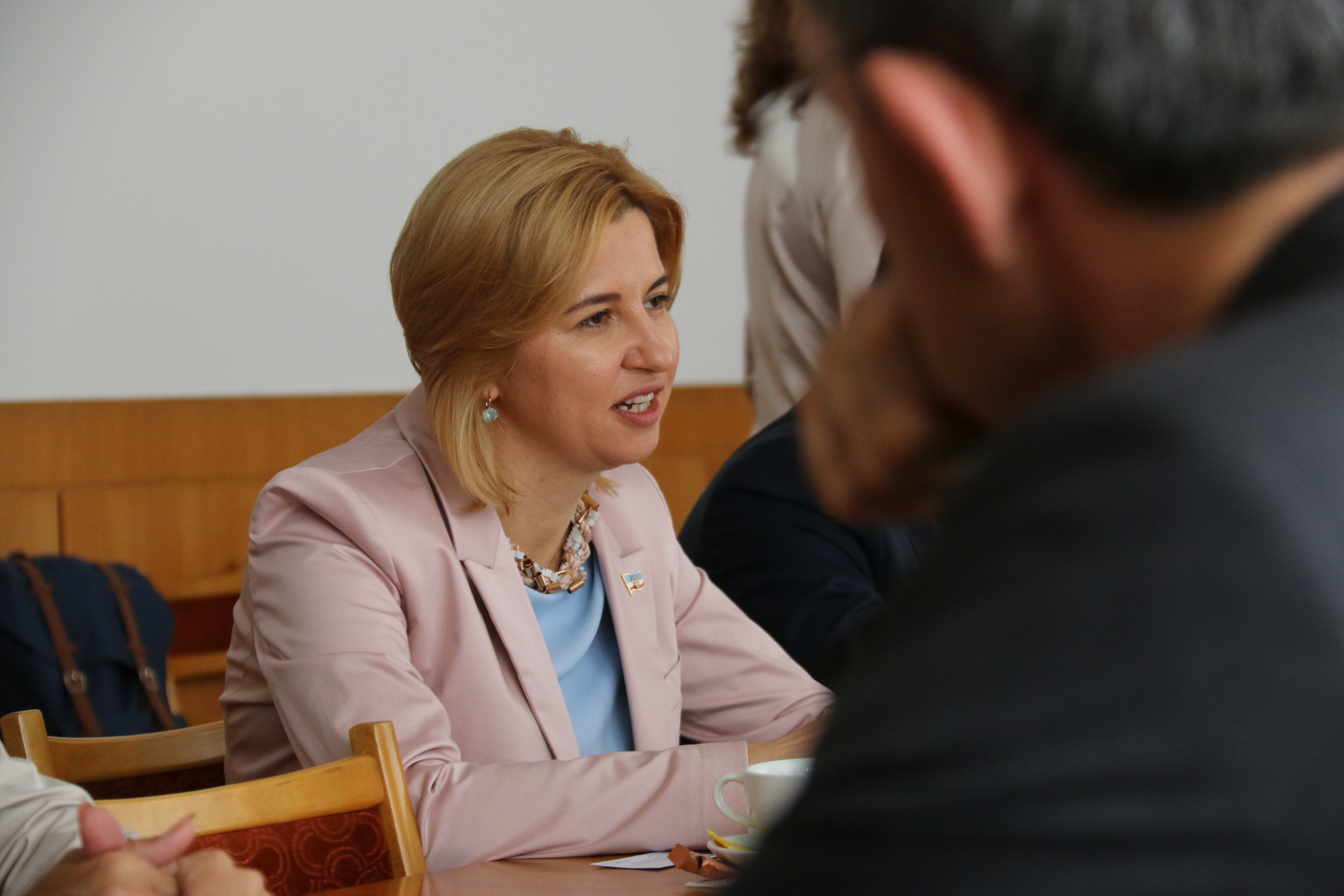 The Governor of the Autonomous Territorial Unit of Gagauzia, Irina Vlah, in Chisinau on 15 June 2016